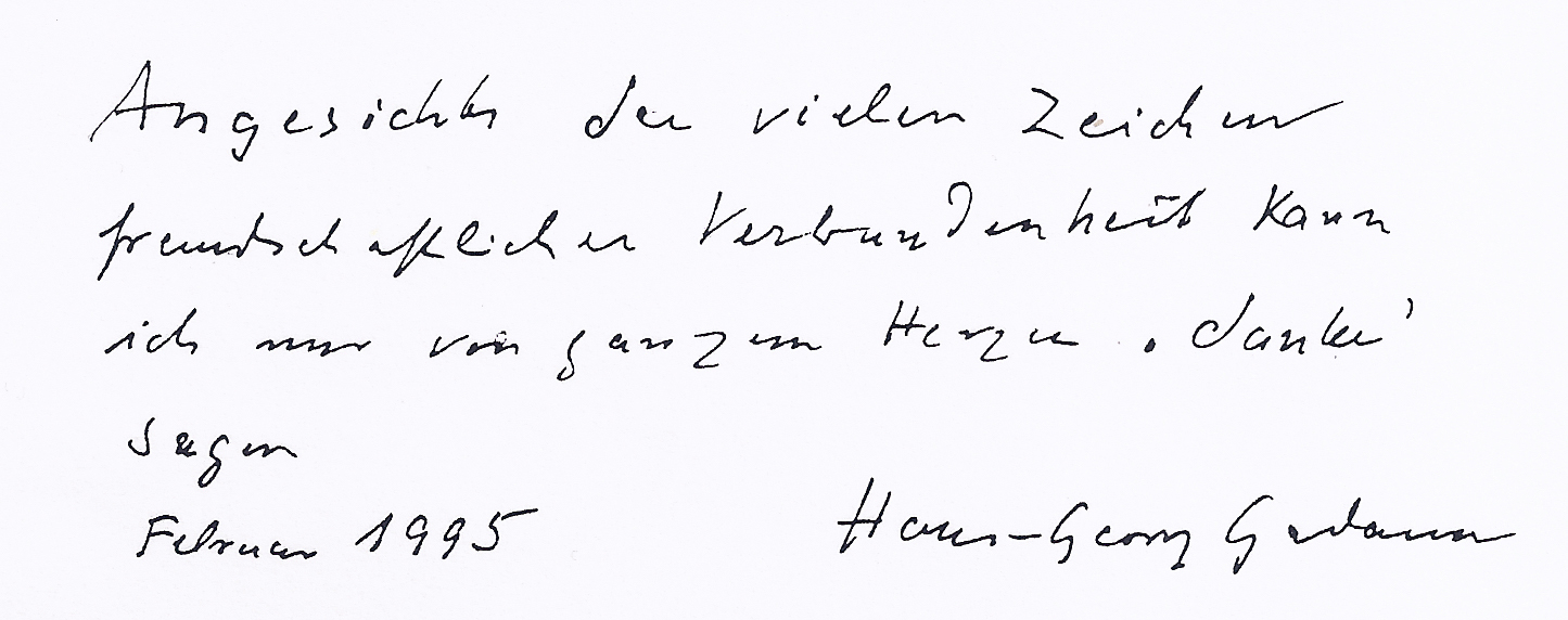 Handwriting by Hans-Georg Gadamer. 1995